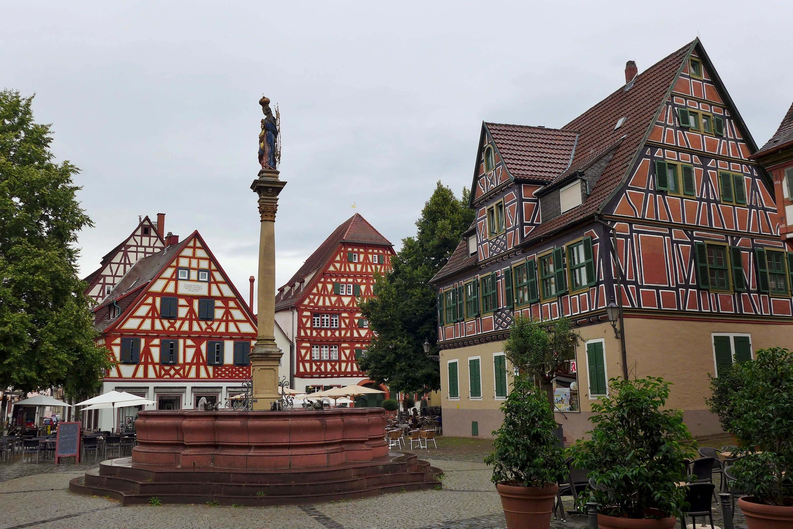 View of Marktplatz, Ladenburg, Germany.